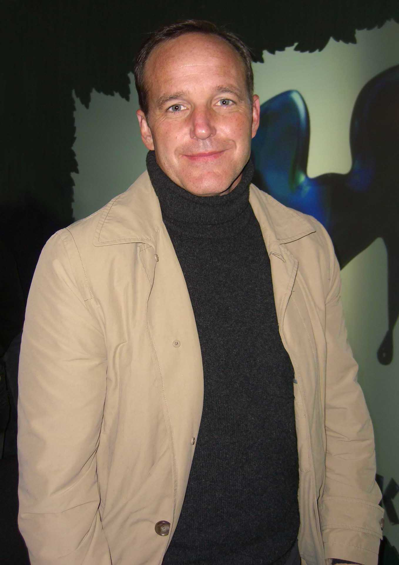 Actor Clark Gregg, at the November 30, 2010 launch party for the Disney video game Epic Mickey at the Times Square Disney Store in Manhattan. Gregg is married to actress Jennifer Grey, star of Dancing with the Stars, which is broadcast on ABC, a network owned by Disney. Photographed by Luigi Novi. This photo is not in the public domain. It may, however, be used, modified and published for any purpose, only if an easily visible credit to the photographer is placed near the photo in each instance in which it is used. (See licensing information below.) Publication of this photo without this proper attribution constitutes copyright infringement. For more information on my photos, you can contact me here.